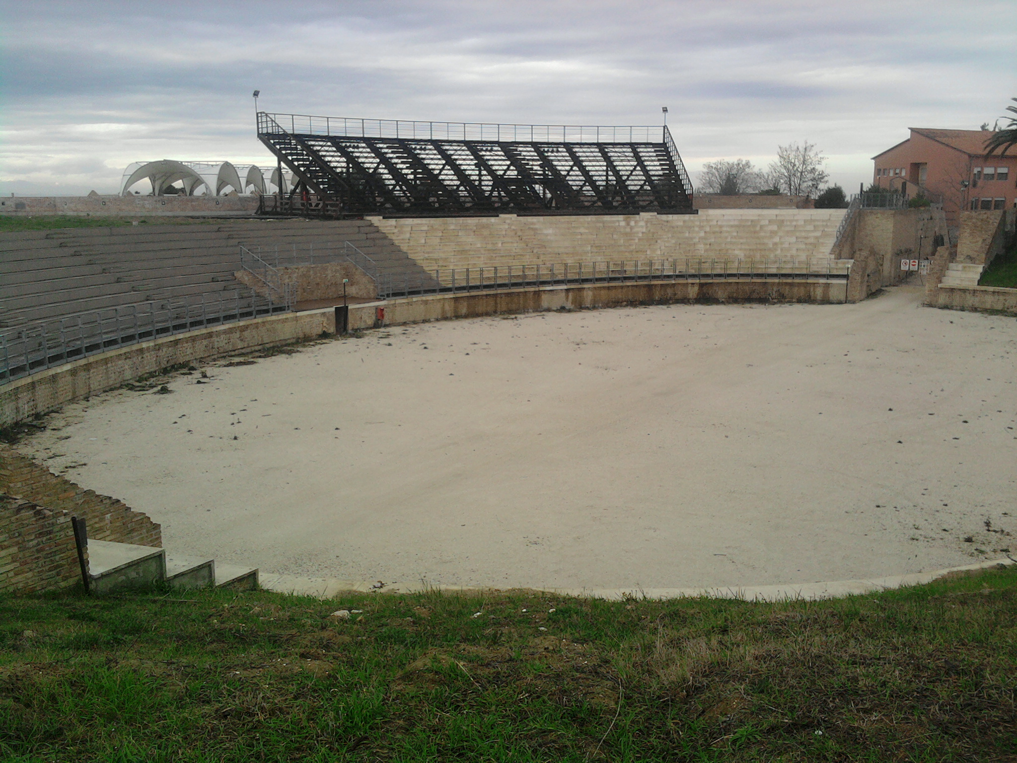 Ruins of the Roman amphitheatrum of Chieti